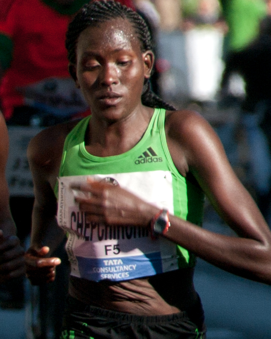 Kenyan runner Flomena Chepchirchir at the Berlin Marathon 2012 passing Kleistpark between Kilometers 21 and 22.